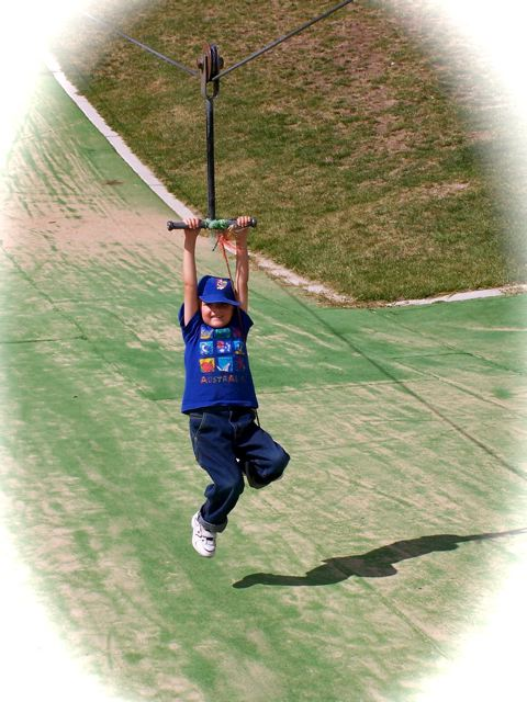 Flying Fox - Gungahlin - Canberra, Australia - Photo: D.M. Vernon. 2004